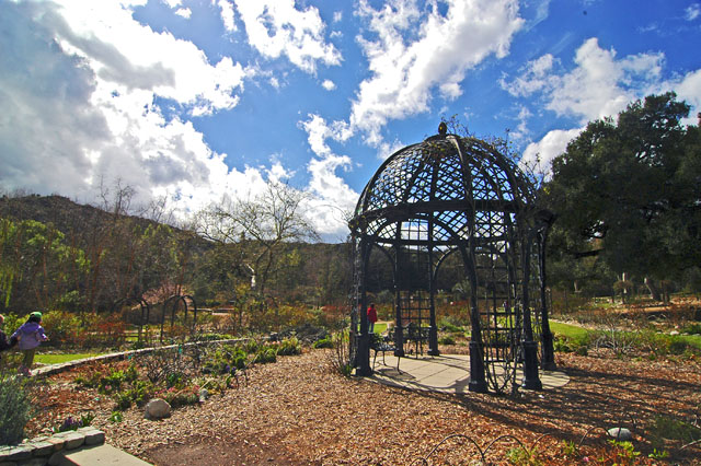 International Rosarium Area of Descanso Gardens